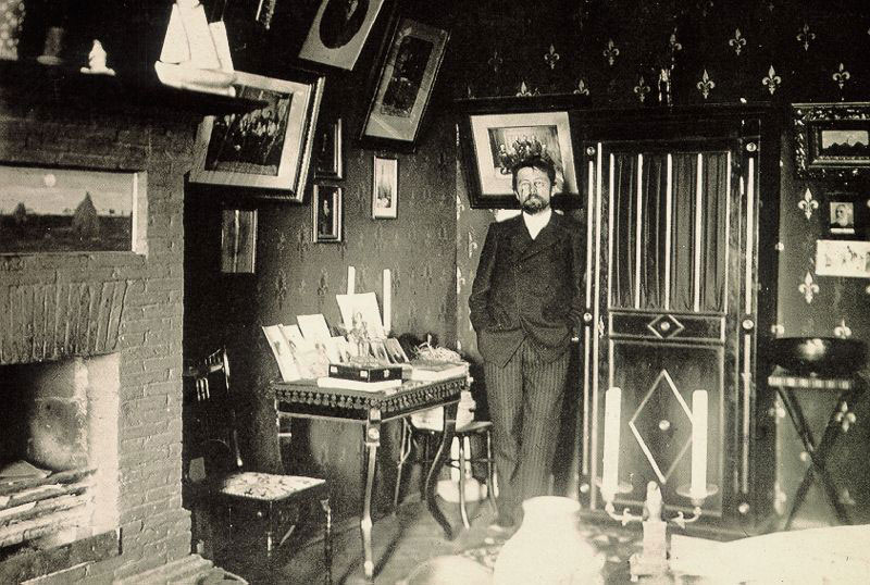 Anton Chekhov in the White Dacha in Yalta